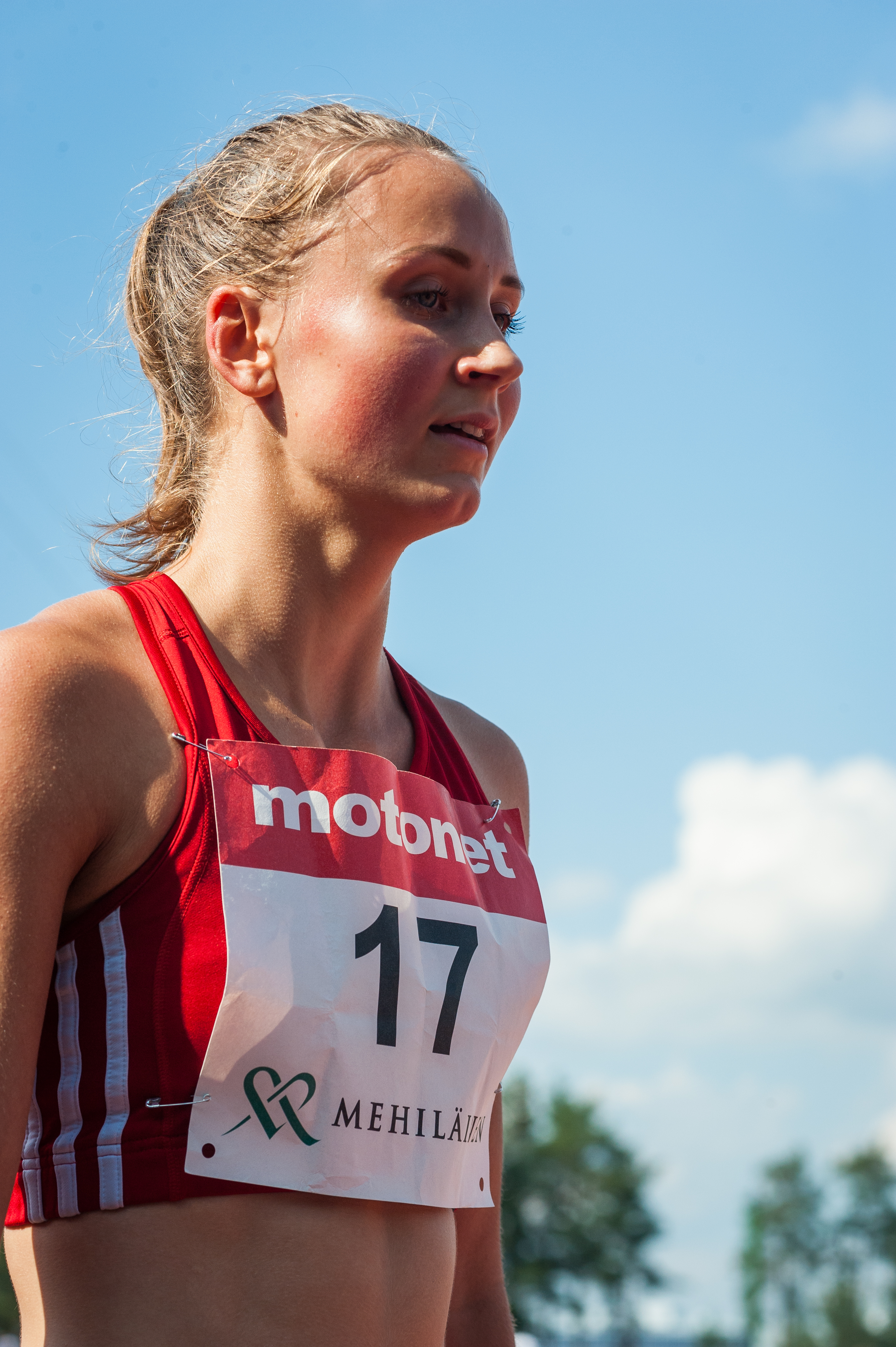 Women's 400 m hurdles competition at the 2018 Kalevan Kisat, the Finnish championships in athletics, in Jyväskylä, Finland.